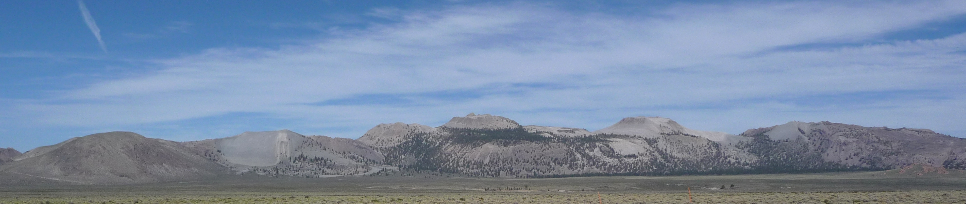 Mono Craters from US 395